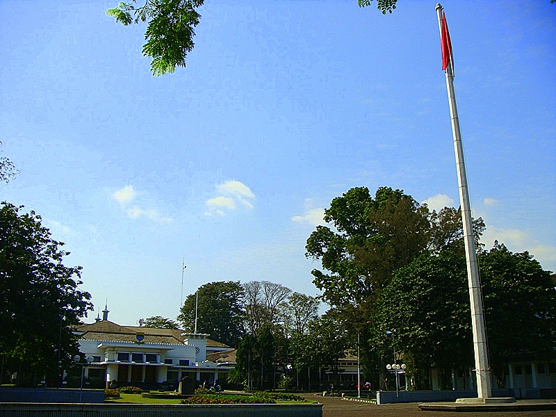 The main building of Bandung City Hall at the heart of the City Hall Garden